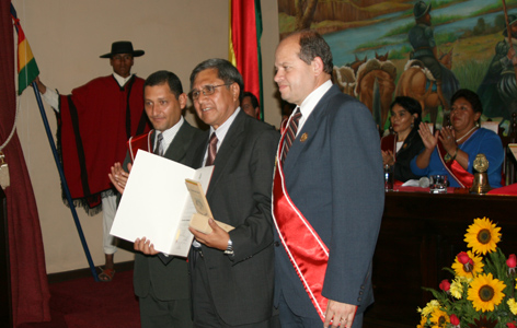 Tarija observatory 25 year